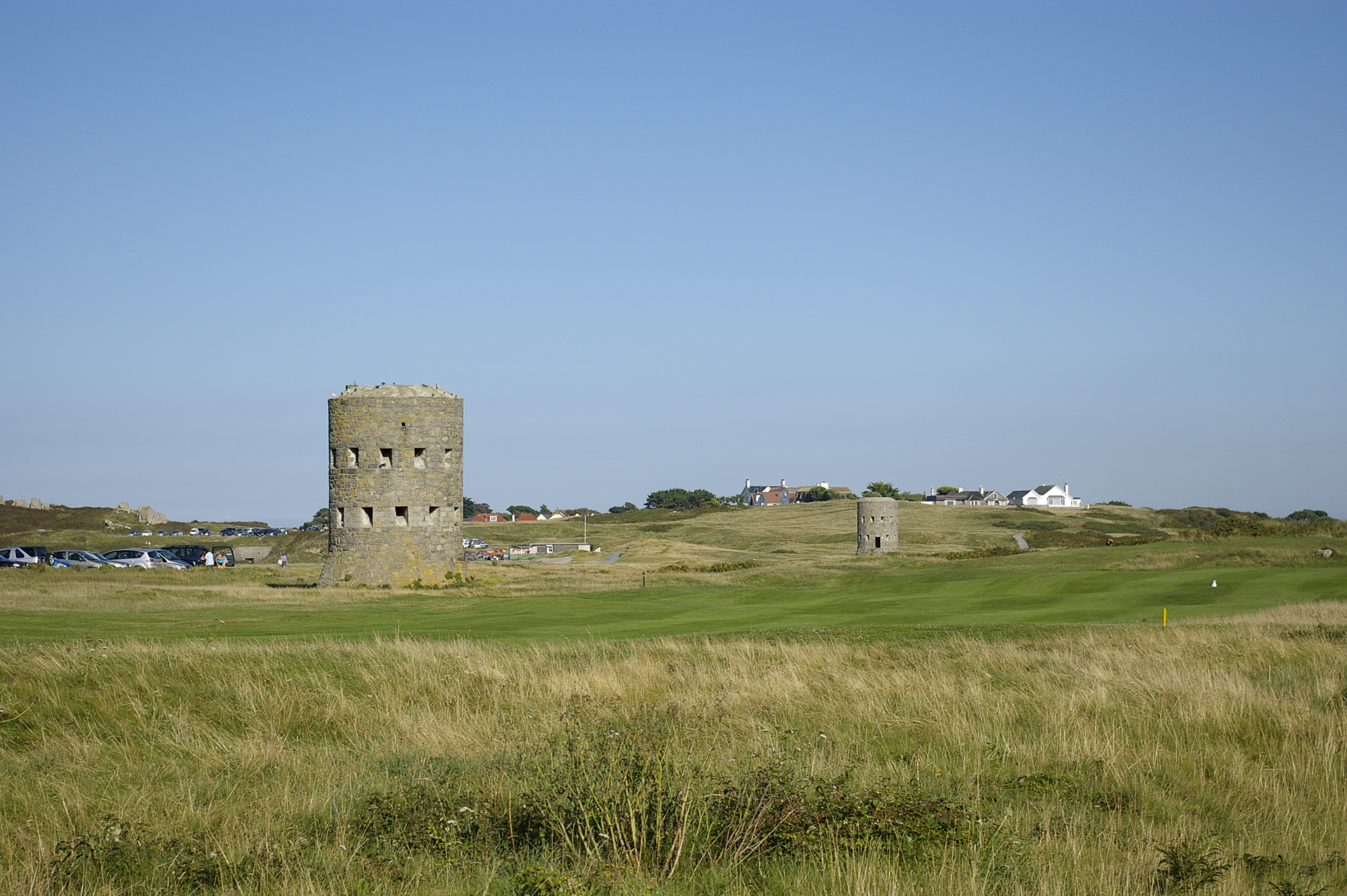 Towers near a golf course in Guernsey